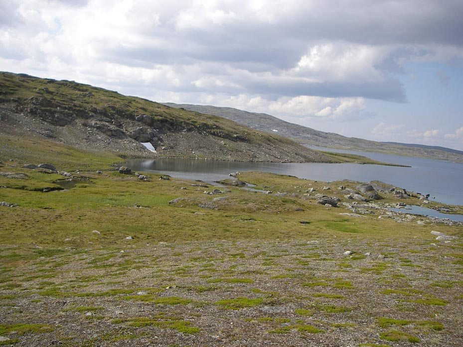 The south east bay of the lake Rissájávrre in Padjelanta, Sweden. The site is the Swedish Pole of unreachability, where you are as far away from the Swedish roads as possible (47 km).